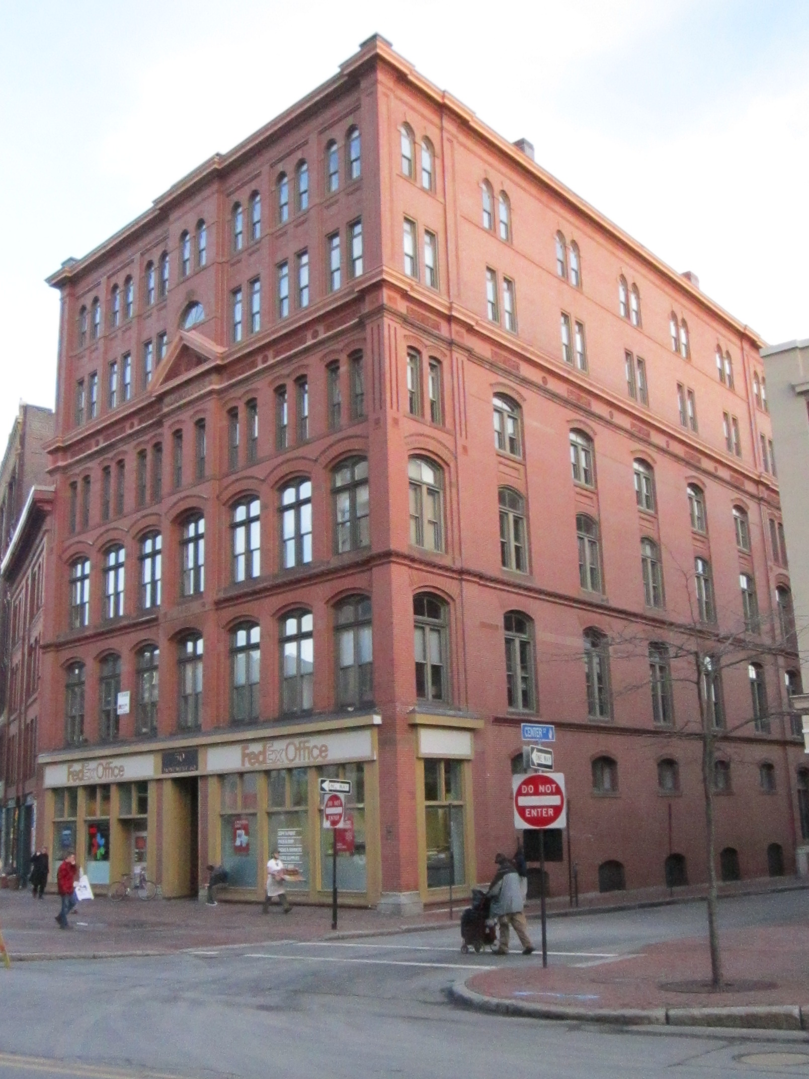 The Lancaster Block on Congress Street in Portland, Maine